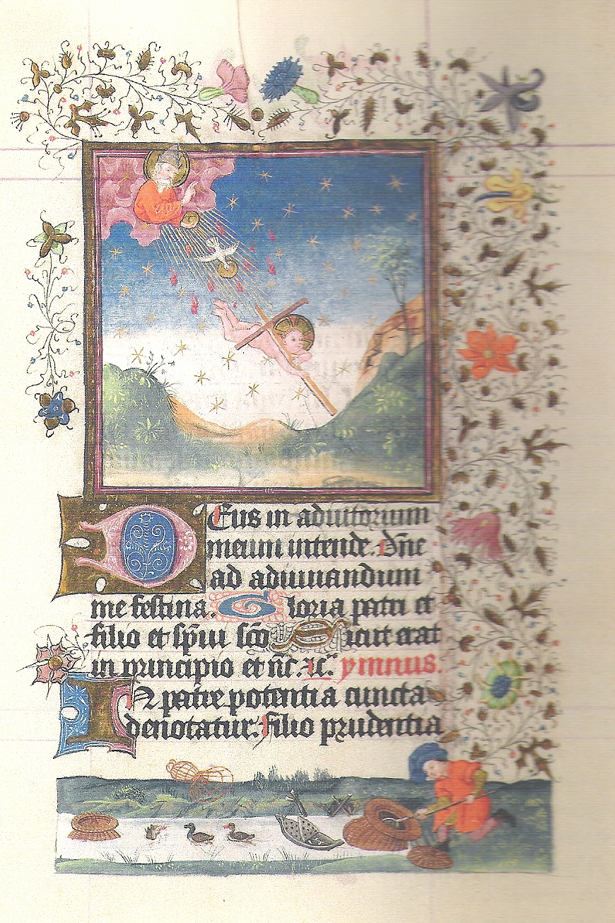 Master of Catherine of Cleves, Trinity